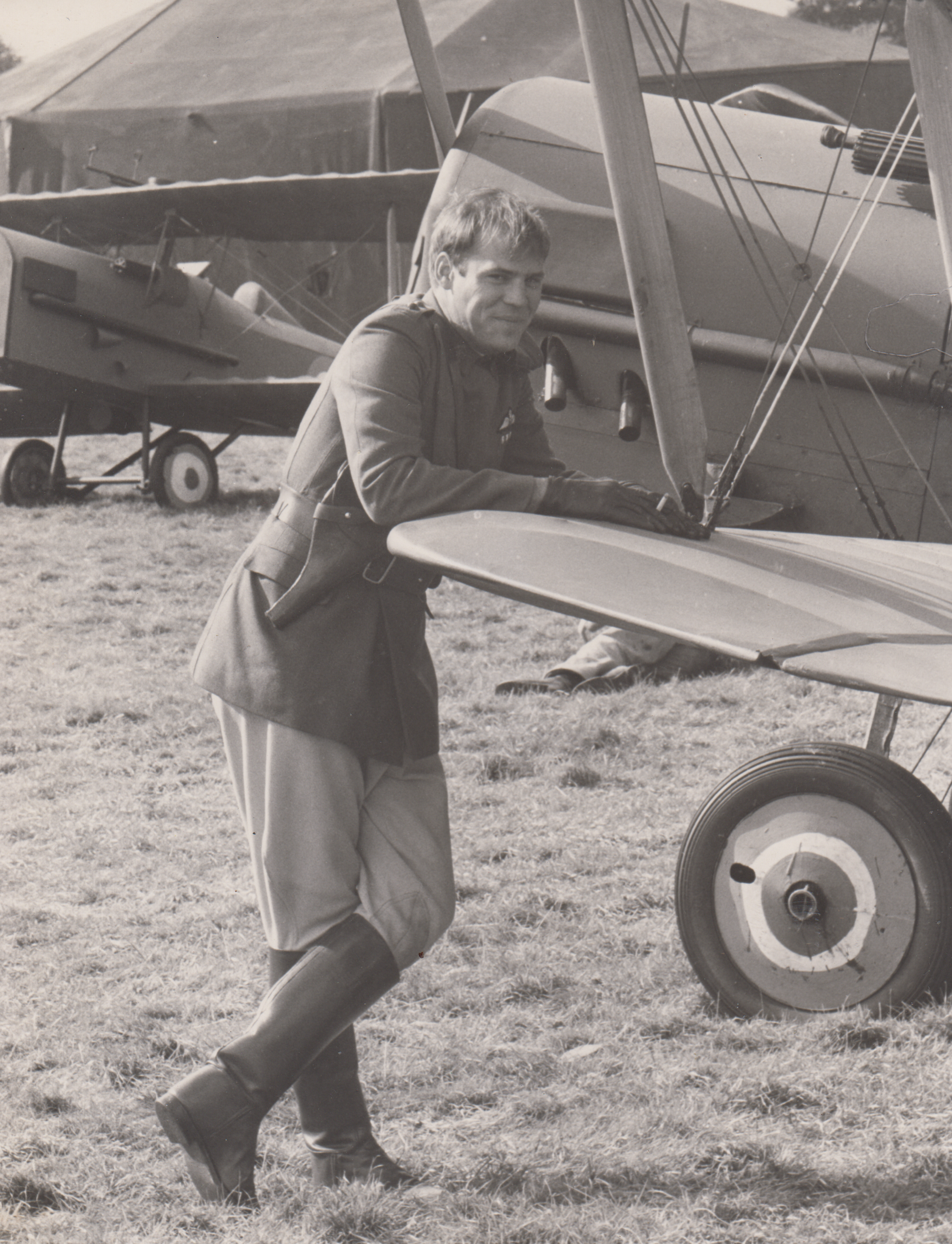 1970 saw Roger Corman film Richthofen & Brown at Lynn Garrison's aviation facility in Ireland. Don Stroud starred in the production